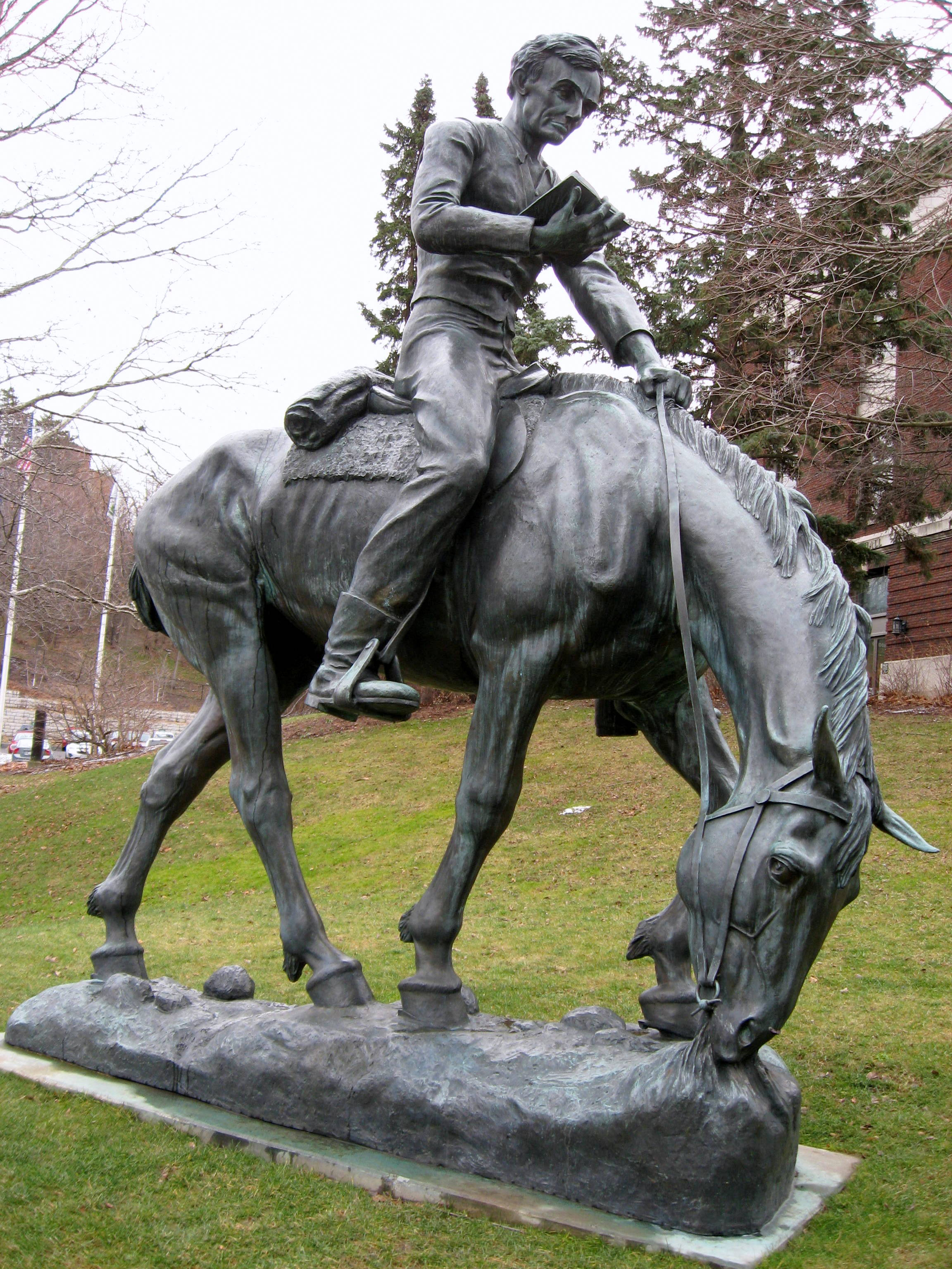 "Young Abe Lincoln on Horseback," 13' bronze sculpture by Anna Hyatt Huntington, 1963. On the campus of the State University of New York College of Environmental Science and Forestry, Syracuse, New York